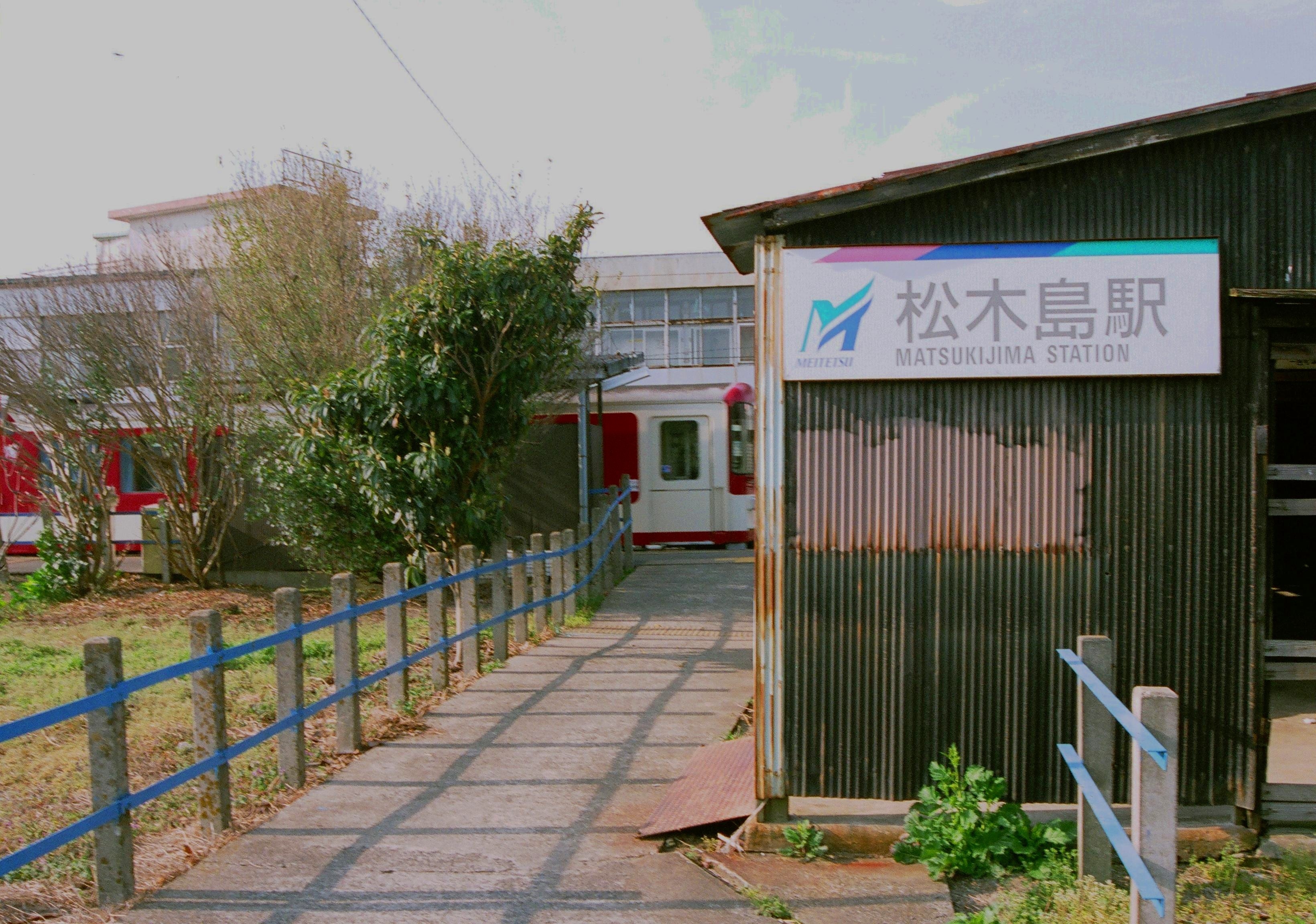 Nagoya-Railroad Mikawa-line Matukizima-Station(Isshiki town, Hazu gun, Aichi prefecture, Japan). 名鉄三河線松木島駅の入口。駅名看板が貼られている建物は駐輪場。 2004年3月31日に碧南－吉良吉田の駅間の営業廃止により廃駅となる。 駅の所在地は愛知県幡豆郡一色町。